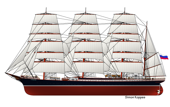 Drawing of the Russian sailing ship Sedov